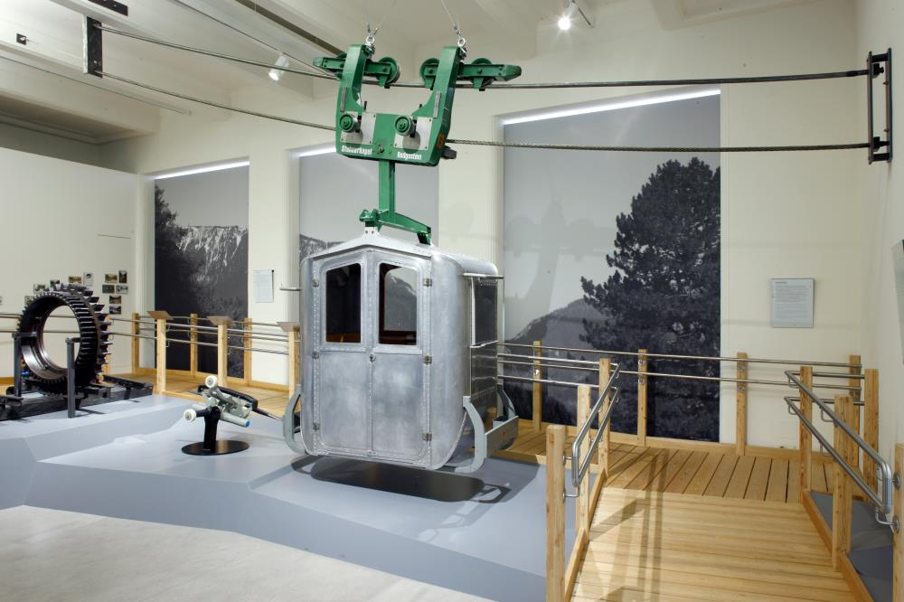 Cabin of the Stubnerkogel cable car with automatic rope clamp system Wallmannsberger in the exhibition Mobility in the Technical Museum Vienna